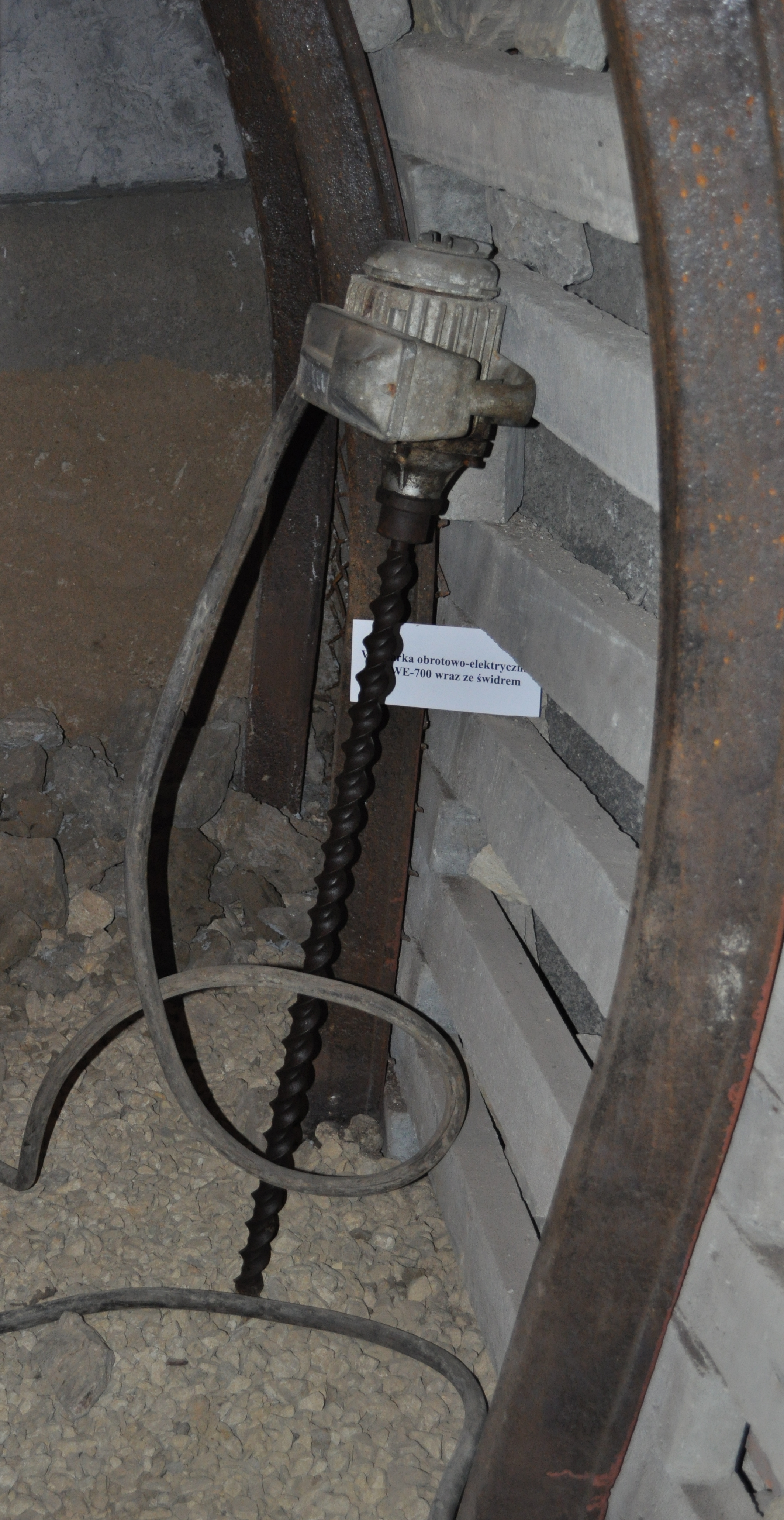 Electrical drill WE-700 in Museum of Iron Ore Mining in Częstochowa. (Industriada 2011 in Częstochowia)